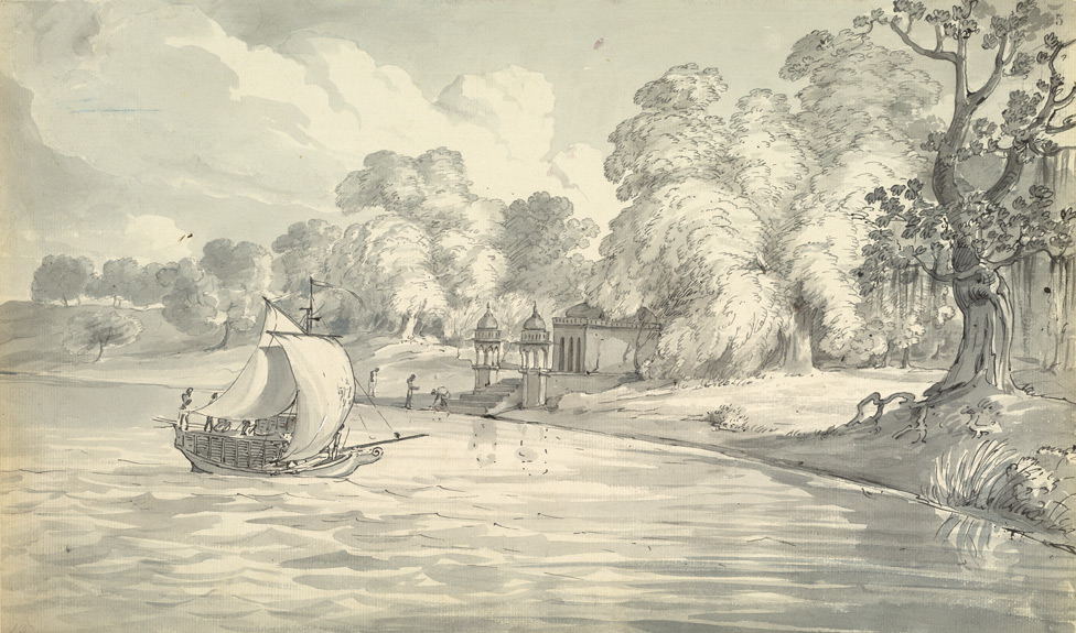 Pen-and-ink and wash drawing of the Ganges below the town of Kara, a major provincial capital during the rule of the Delhi Sultanate Uploaded by Fowler&fowler«Talk» 09:02, 30 March 2009 (UTC)